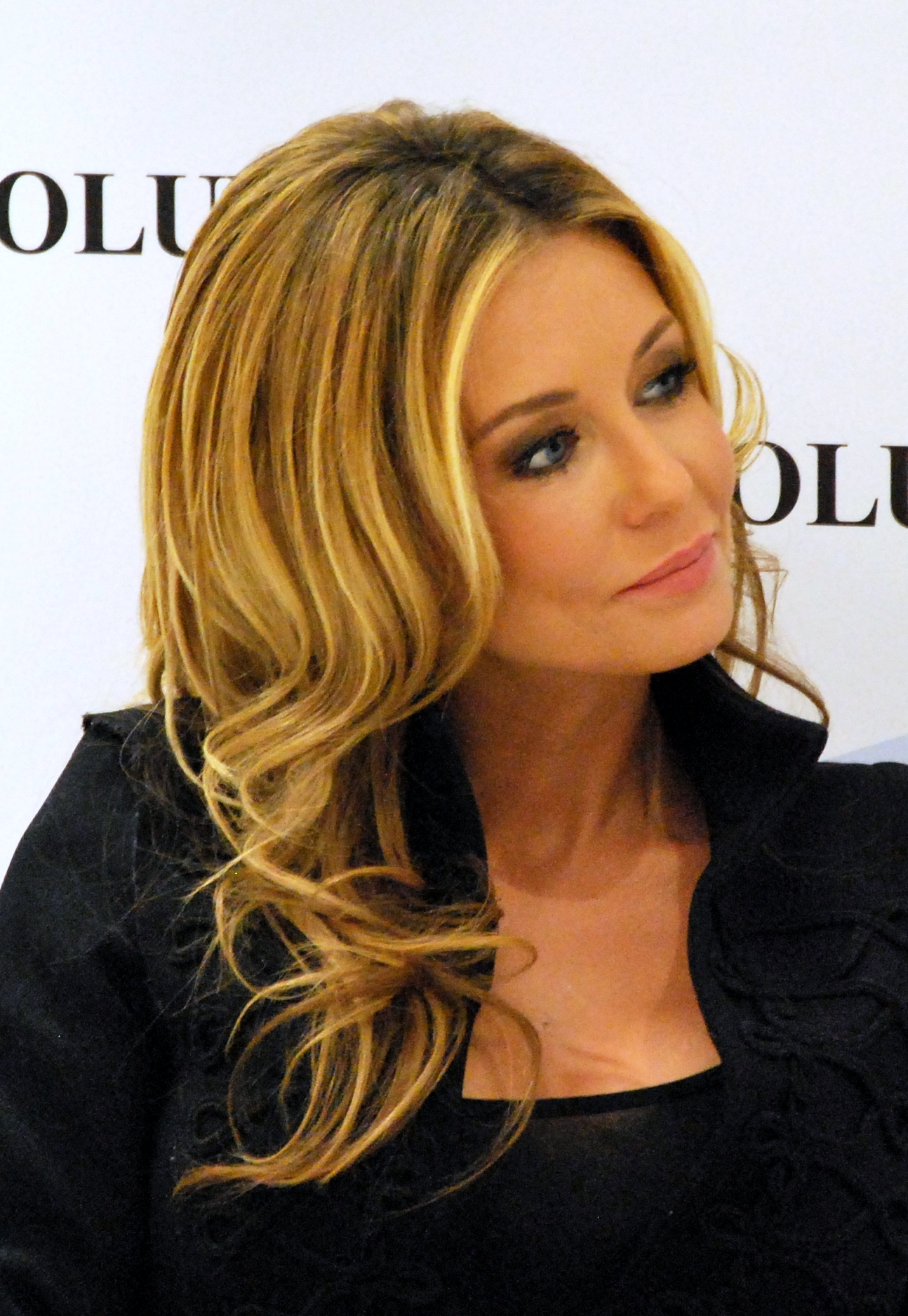 Małgorzata Rozenek, Łódź December 2014